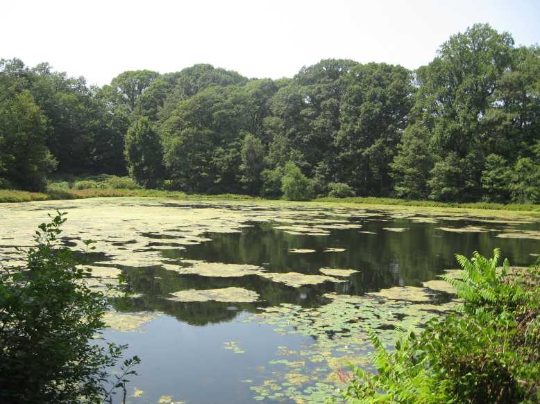 Wards Pond in Olmsted Park in August 2007